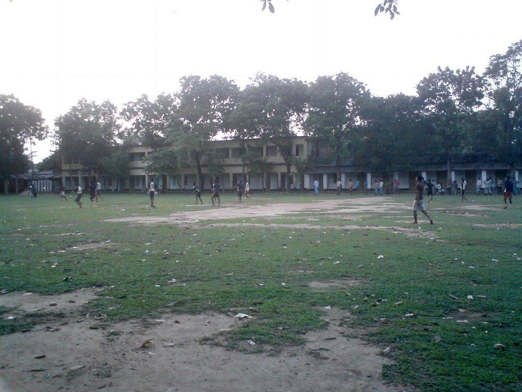 Bhujpur National School & College